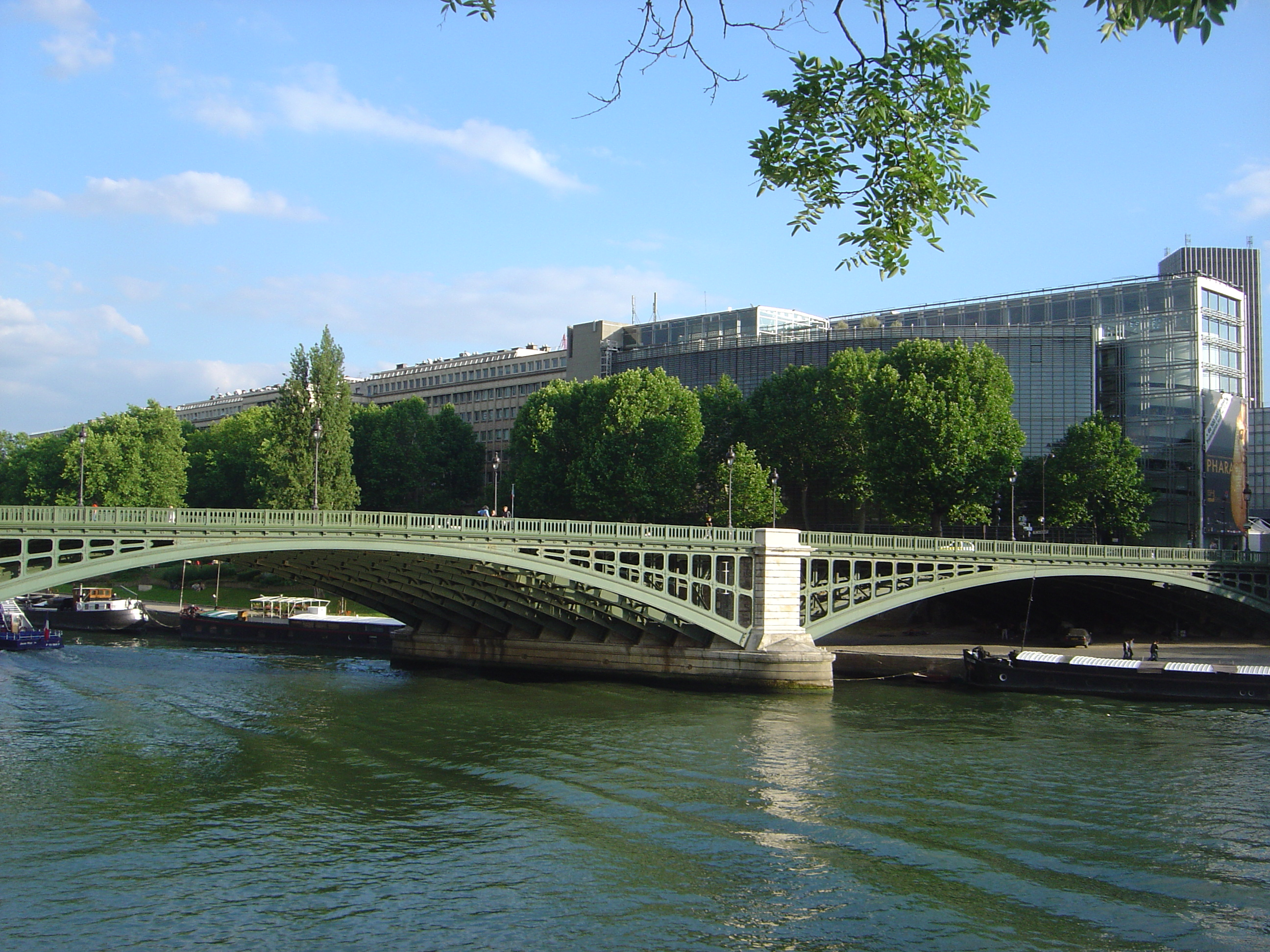 Paris: the Pont de Sully (front) with the Institut du monde arabe in the background to the right; to the left, the northern buildings of the Jussieu Campus